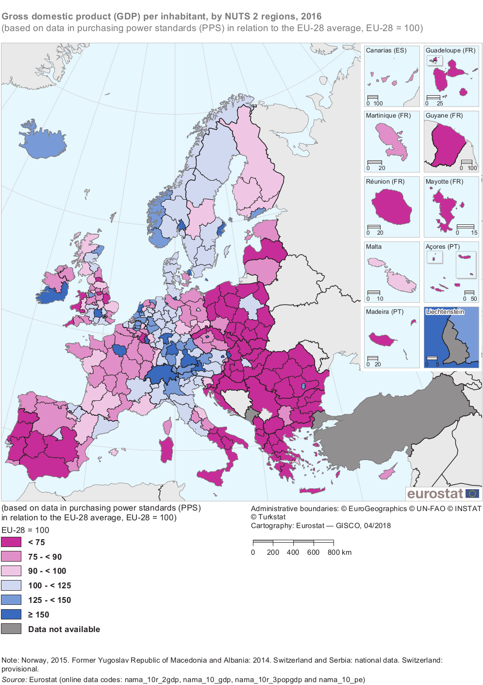 Gross domestic product (GDP) per inhabitant in purchasing power standards (PPS) in relation to the EU-28 average, by NUTS 2 regions